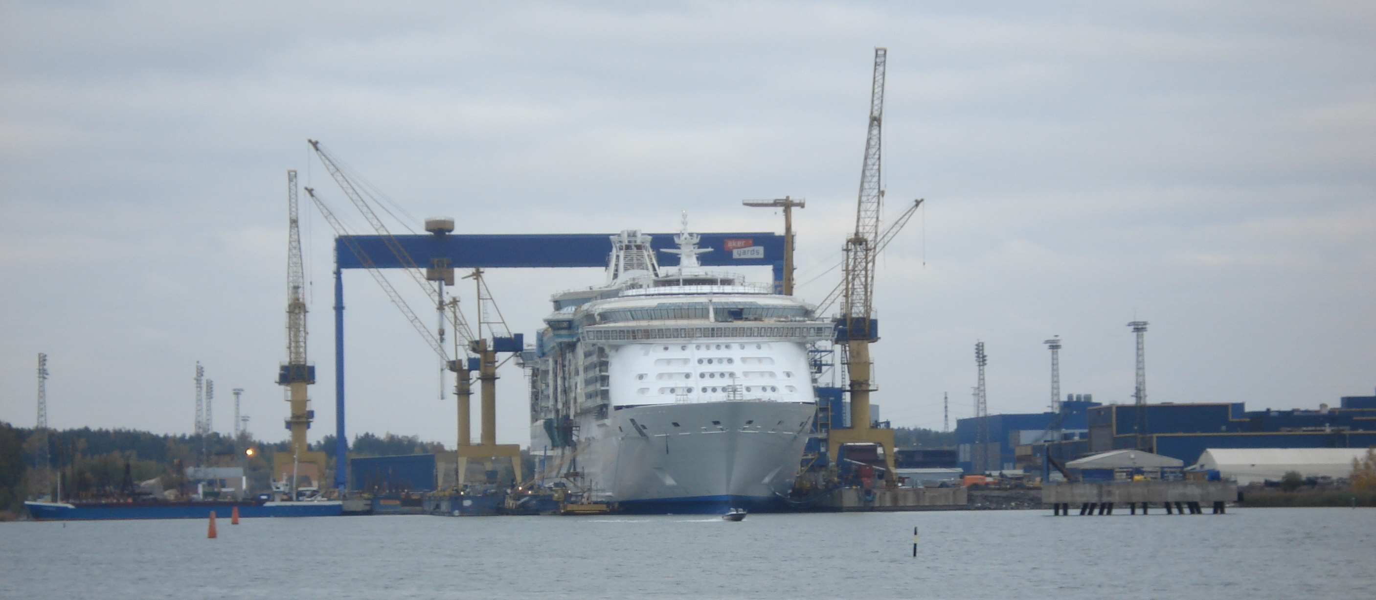 MS Independence of the Seas under construction at Aker Finnyards Shipyard, Turku, Finland.